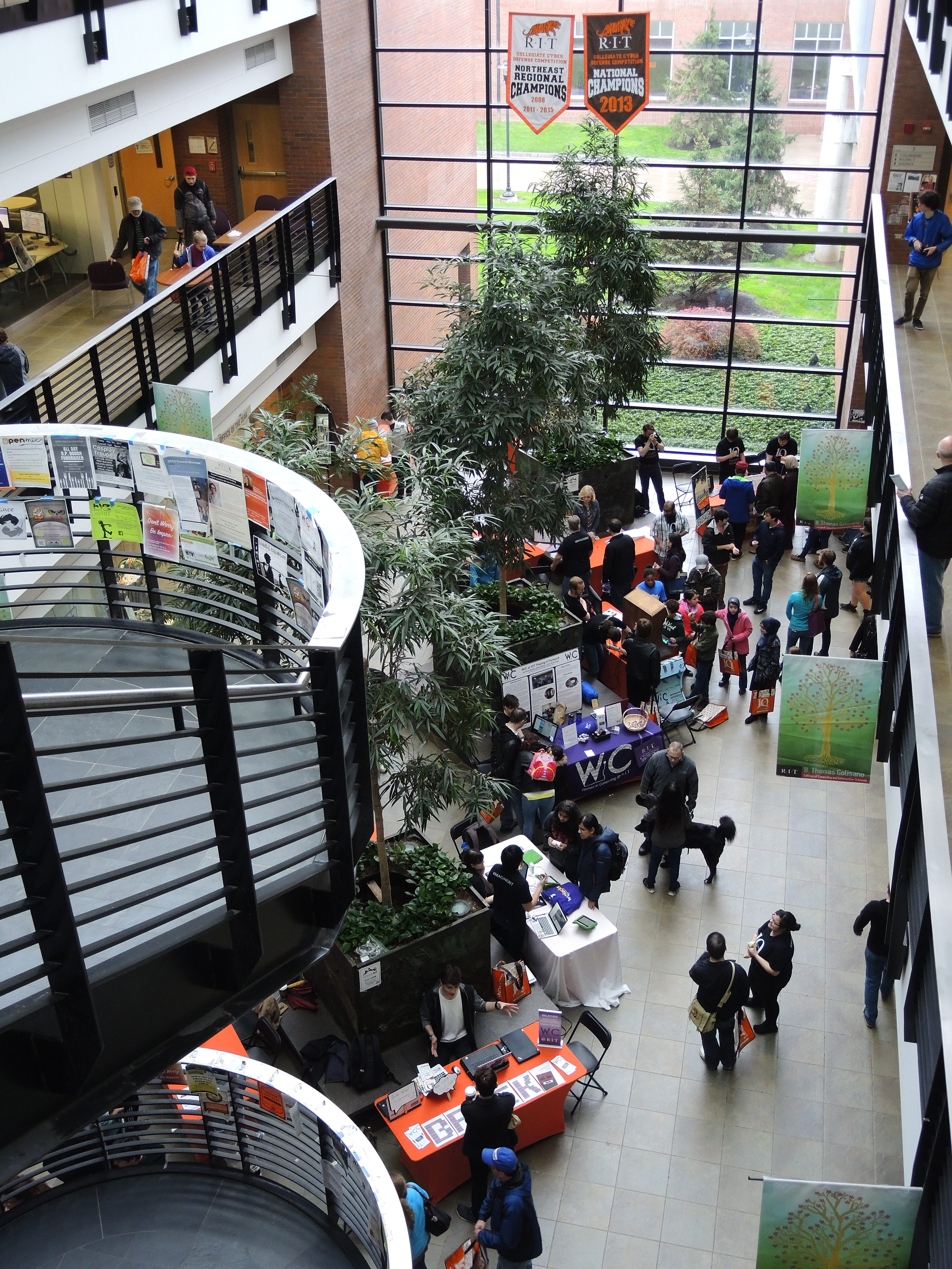 B. Thomas Golisano College of Computing and Information Sciences atrium full of vistors at Imagine RIT 2017.